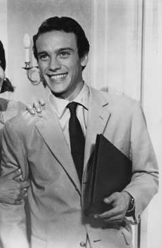 Oscar Orlegui- actor